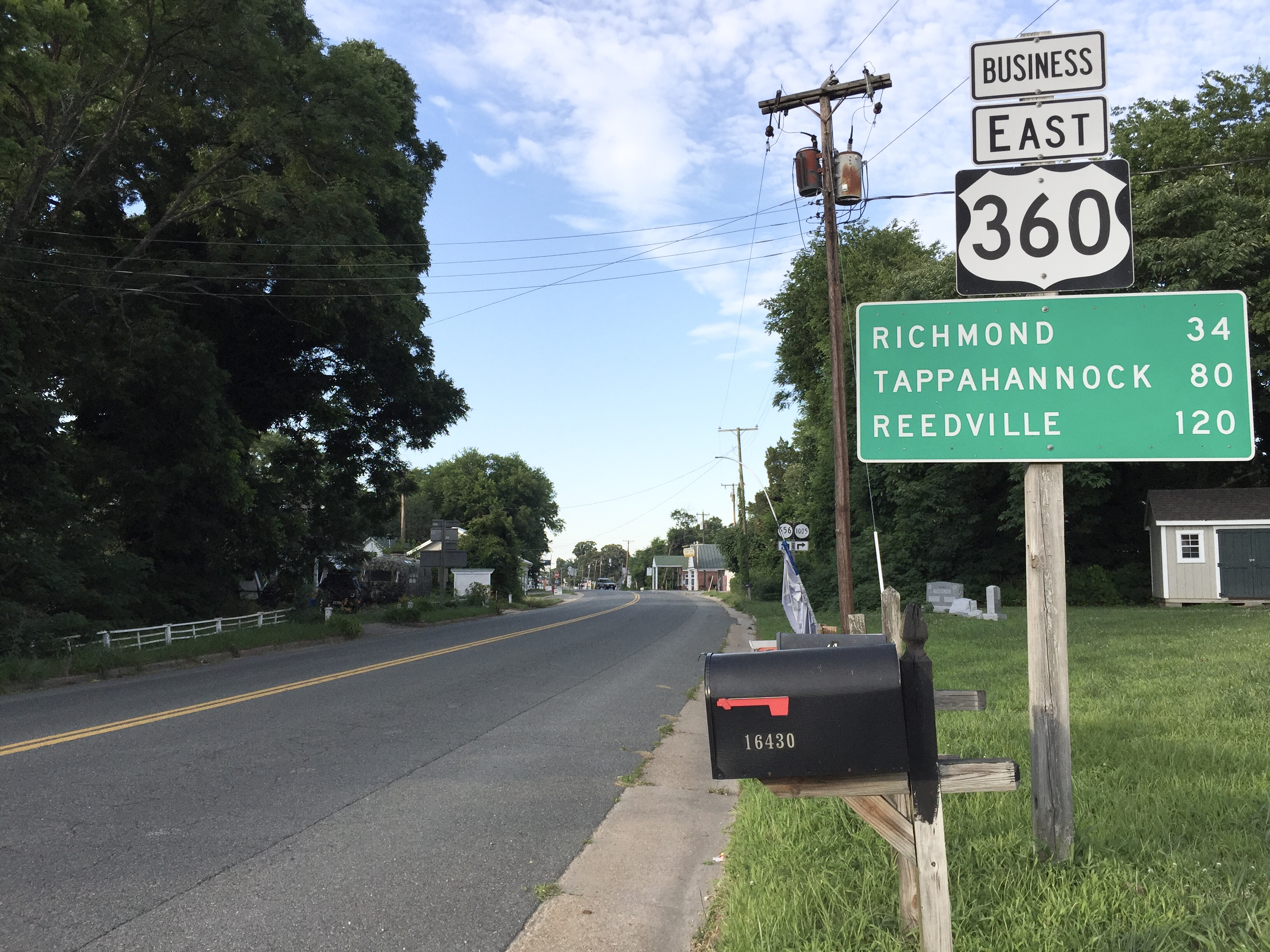 View east along U.S. Route 360 Business (Goodes Bridge Road) at Virginia Street (Virginia State Secondary Route 1009) in Amelia Courthouse, Amelia County, Virginia